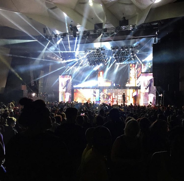 Chris Brown at SPAC in Saratoga New York 2015.